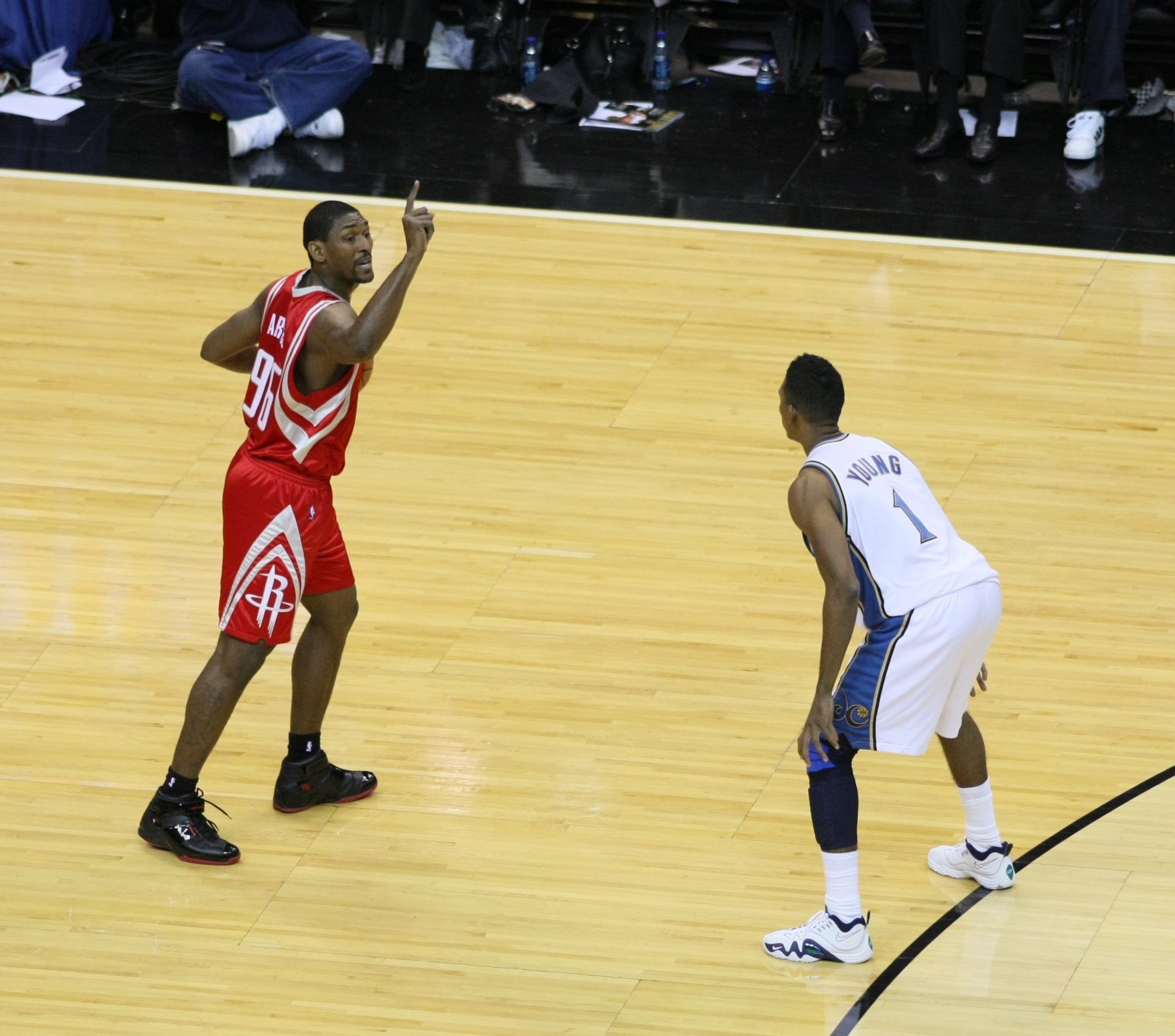 Metta World Peace during the Washington Wizards vs. Houston Rockets game on Nov 21, 2008 at Verizon Center in Washington, D.C. Wizards' guard Nick Young (basketball) is seen guarding Artest on defense.